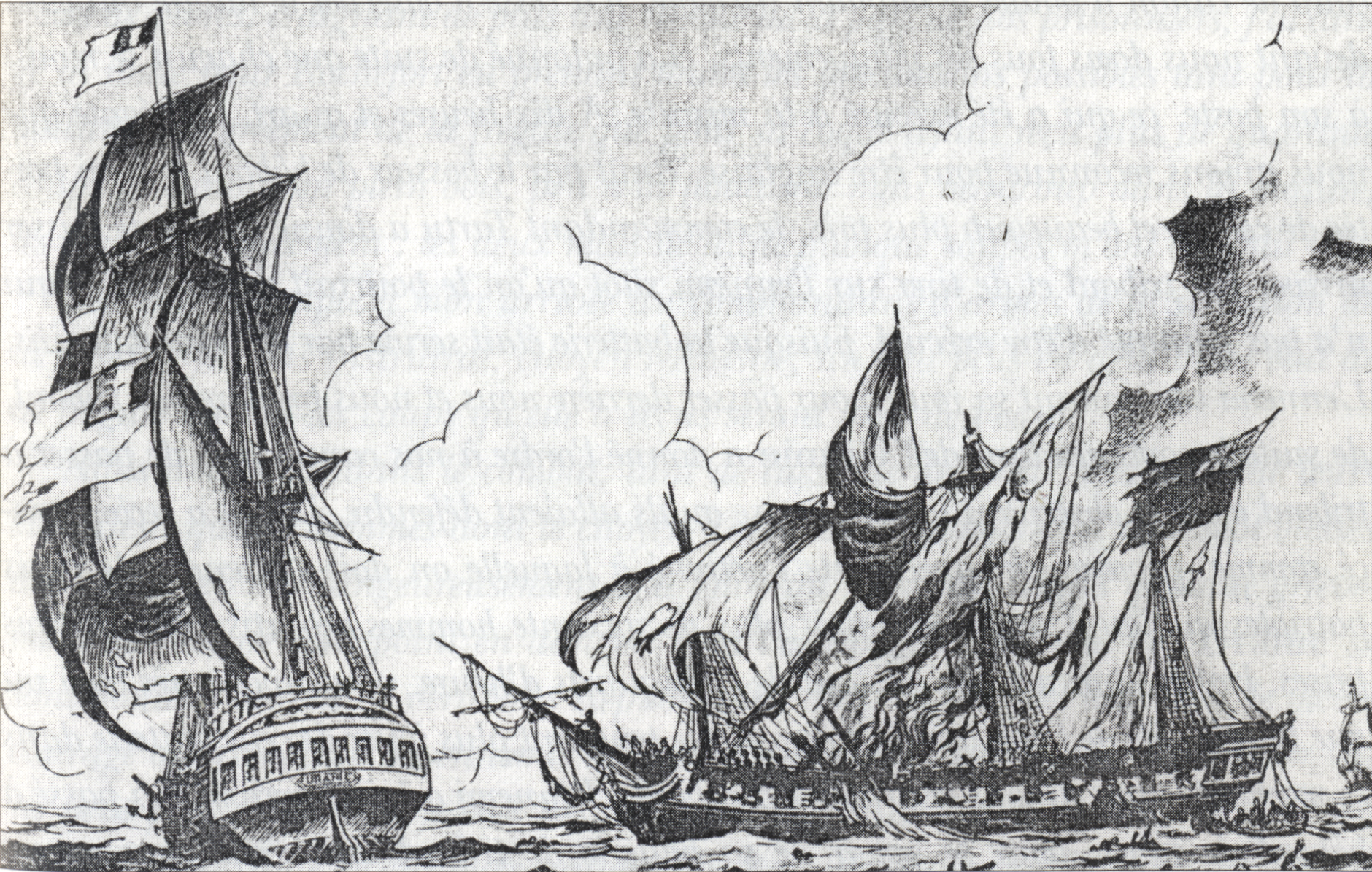 The Action of 24 October 1793 between Uranie and HMS Thames